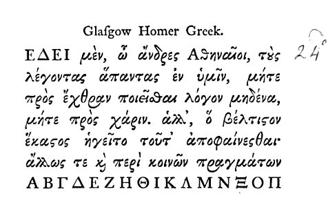 Typeset of greek characters by Alesander Wilson and sons (1786)